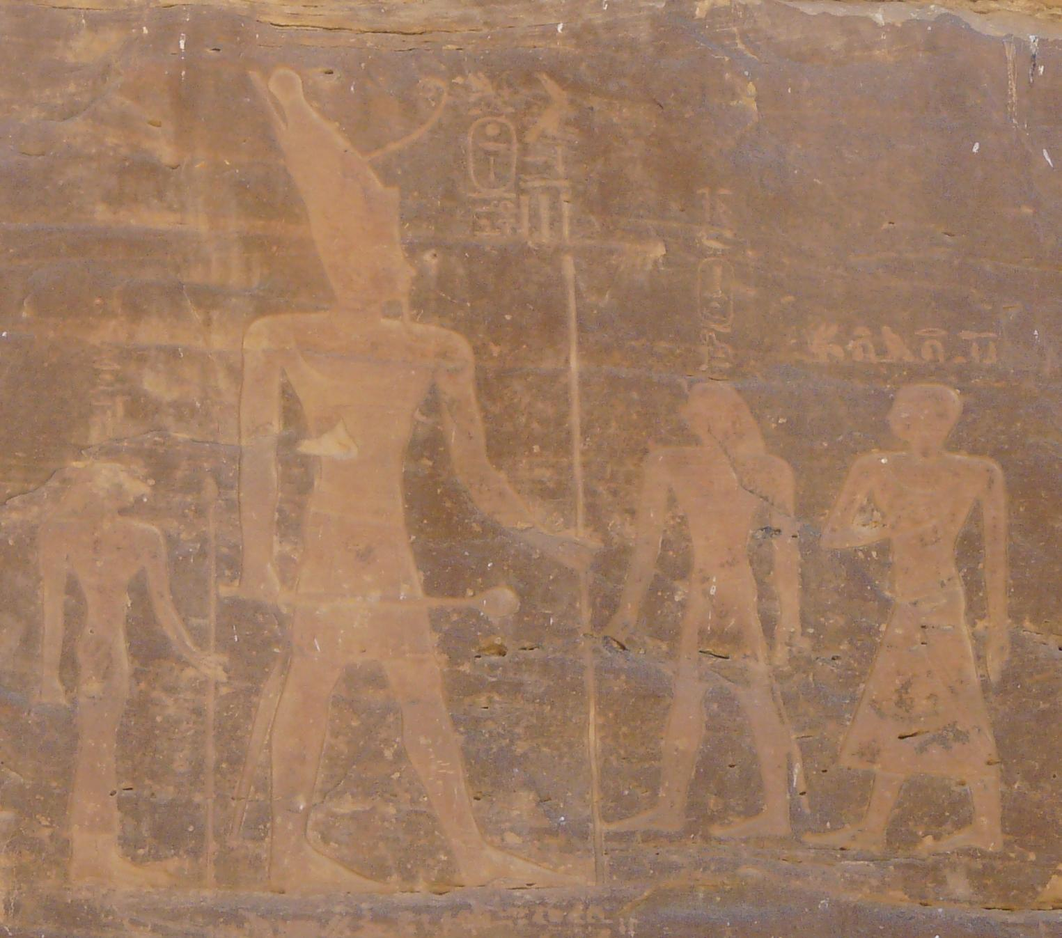 Shatt er-Rigal (Egypt); inscription of king Mentuhotep II